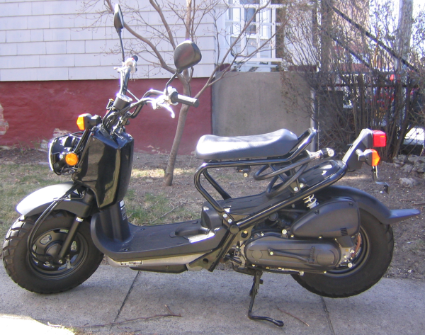 This was my Honda Ruckus. It was a great bike. I sold it.